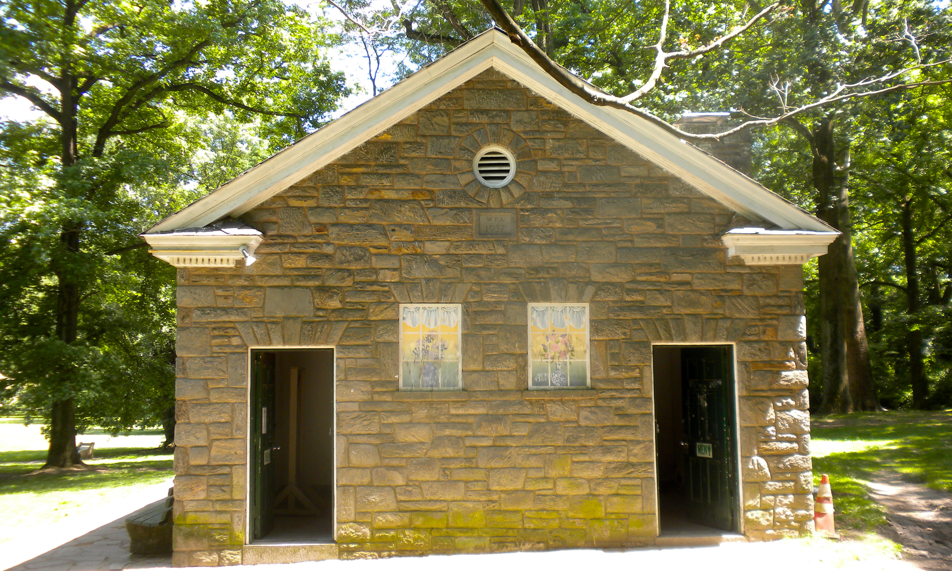 Latrine (men to the right, women to the left) in Pastorious Park in NW Philadelphia Chestnut Hill neighborhood. Date stone below the circular vent states "WPA, 1937." Built better than a brick shit house.